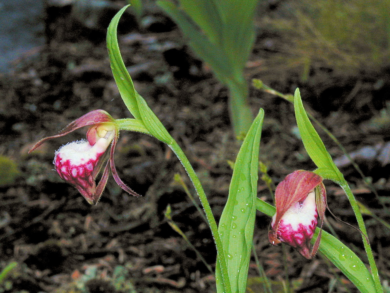 Cypripedium arietinum photo taken on Manitoulin Island alvar